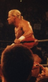 Lex Luger during a taping of WCW Monday Nitro from Minneapolis, Minnesota in 1998.